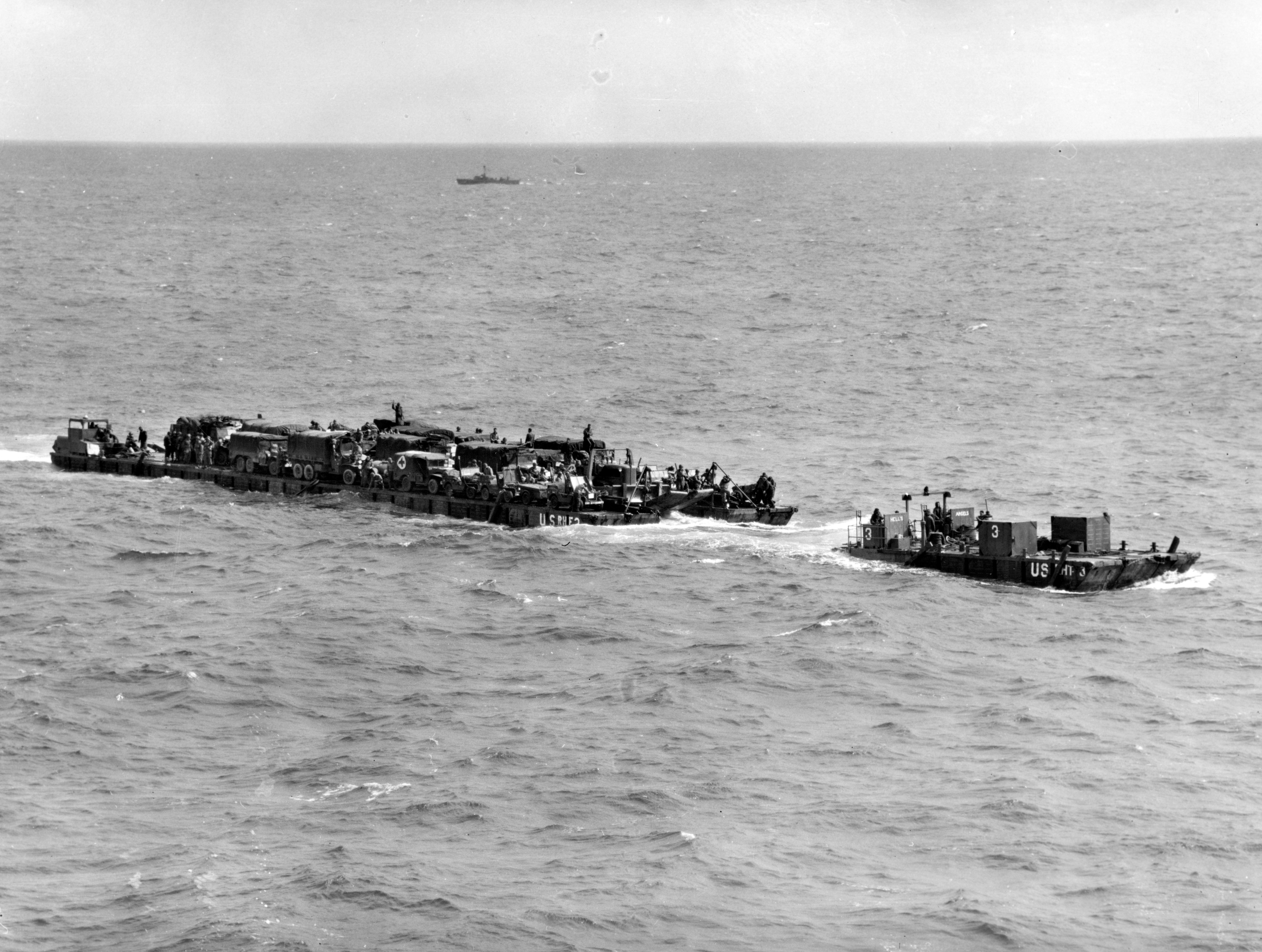 A loaded U.S. Navy "Rhino" ferry approaches the Normandy invasion beaches on "D-Day", 6 June 1944. This ferry is RHF-3, with "Rhino" tug RHT-3 assisting. Note the name "Hell's Angels" on the RHT-3's conning station shields. A U.S. Coast Guard 83-foot rescue boat is in the distance.